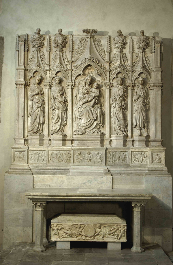 Altarpiece and shrine of Saint Richard the Pilgrim, in San Frediano, at Lucca; the altarpiece is sculpted by Jacopo della Quercia.